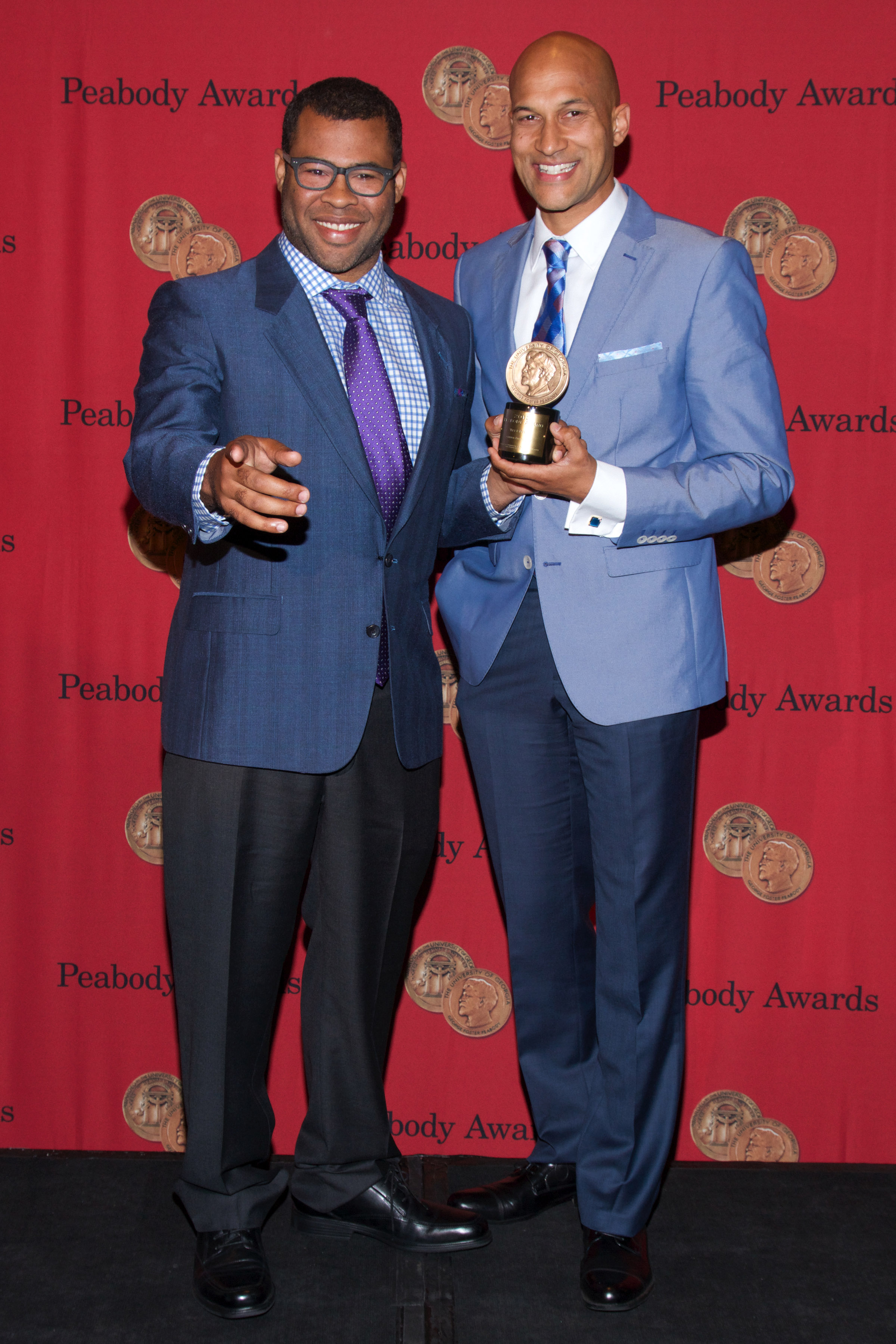 Jordan Peele and Keegan-Michael Key at the 73rd Annual Peabody Awards for "Key & Peele."